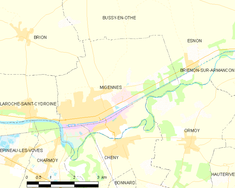 Map of French municipality Migennes